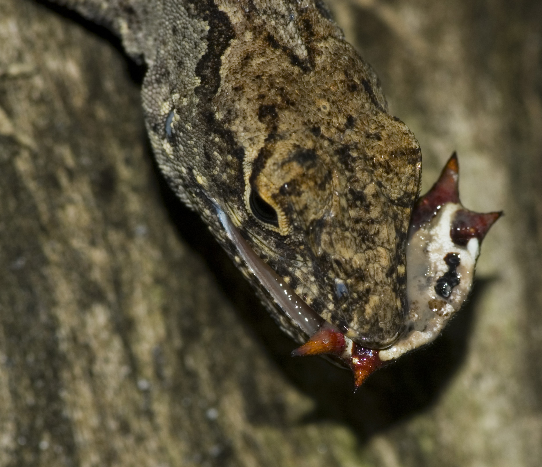 A brown anole (Anolis sagrei) eating a spiny orb-weaver spider (Gasteracantha cancriformis)